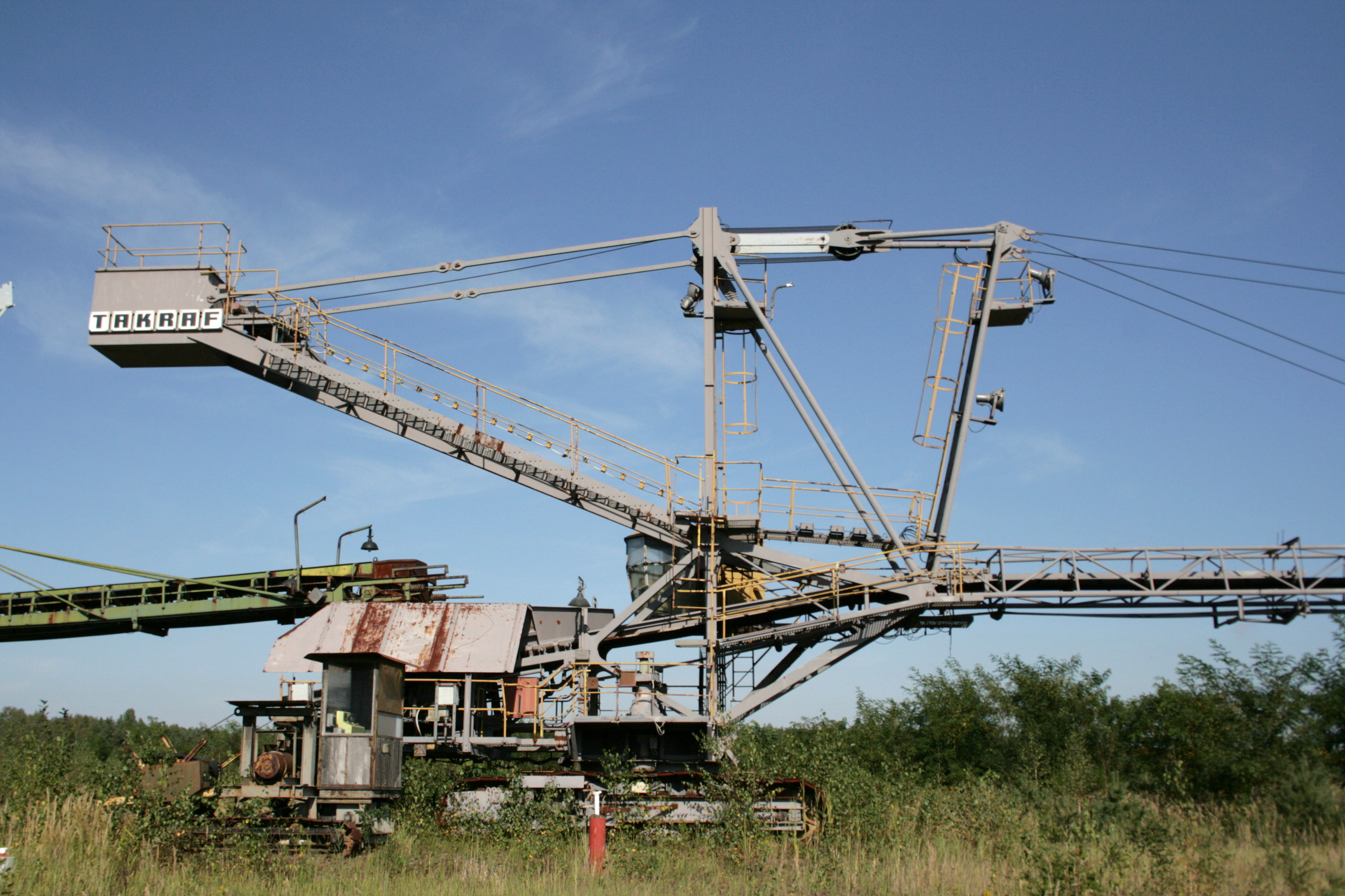 Energy Factory Knappenrode